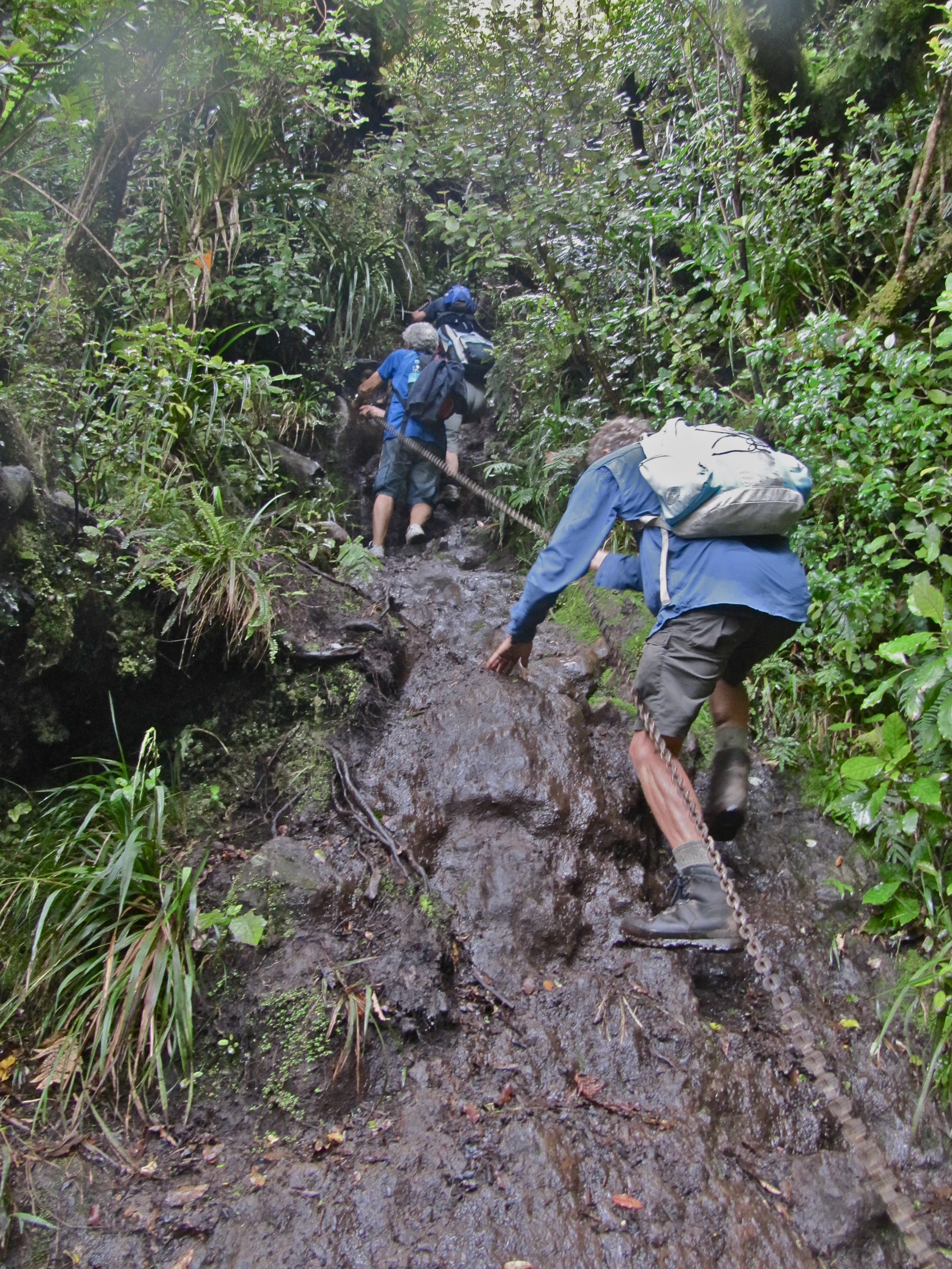 the climb would be simple without the chain, but is safer and faster with it